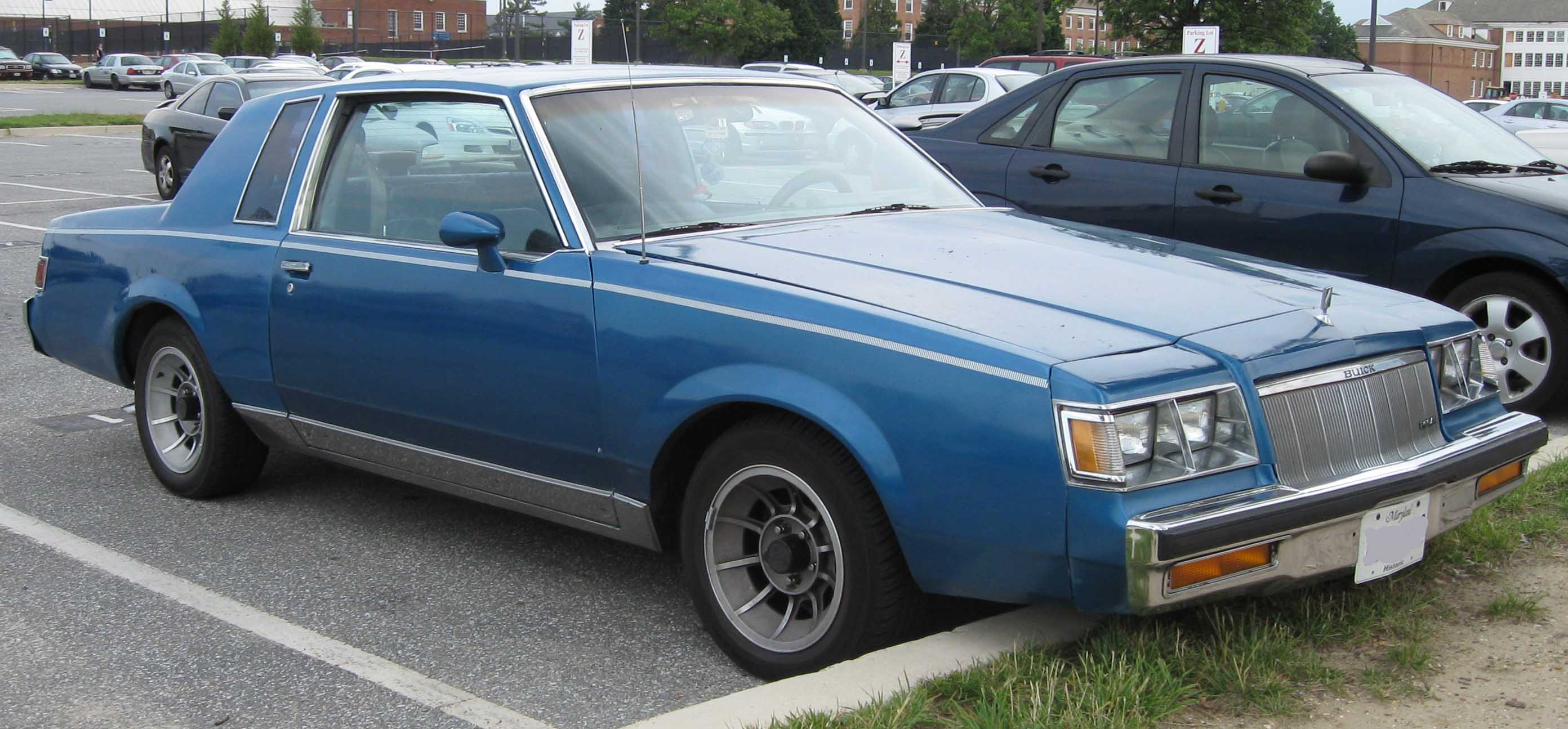 Buick Regal photographed in College Park, Maryland, USA.